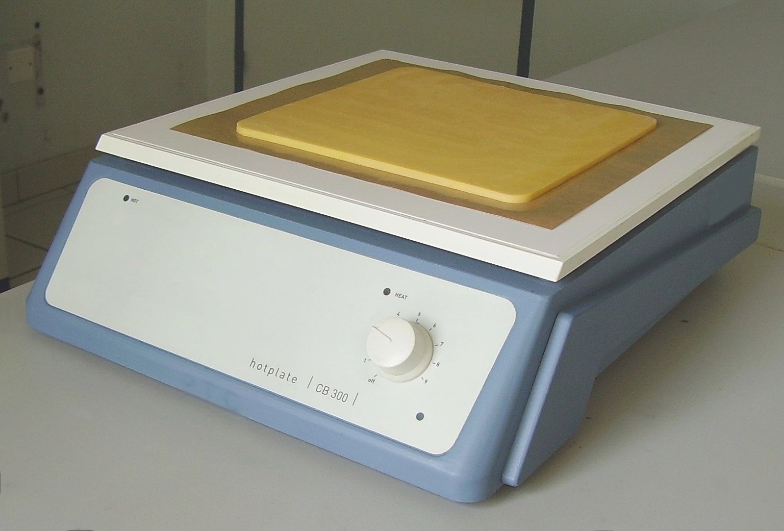 Analog hotplate, 300 x 300 mm ceramic surface for resistance to chemical attack, maximum surface temperature 450 °C. Softening to about 80 °C a plate of an injected thermoplastic polymer material (4 mm thick, placed on non-stick silicone paper), to facilitate cutting for sampling.